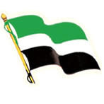 Tamilnadu Thowheed Jamath Flag